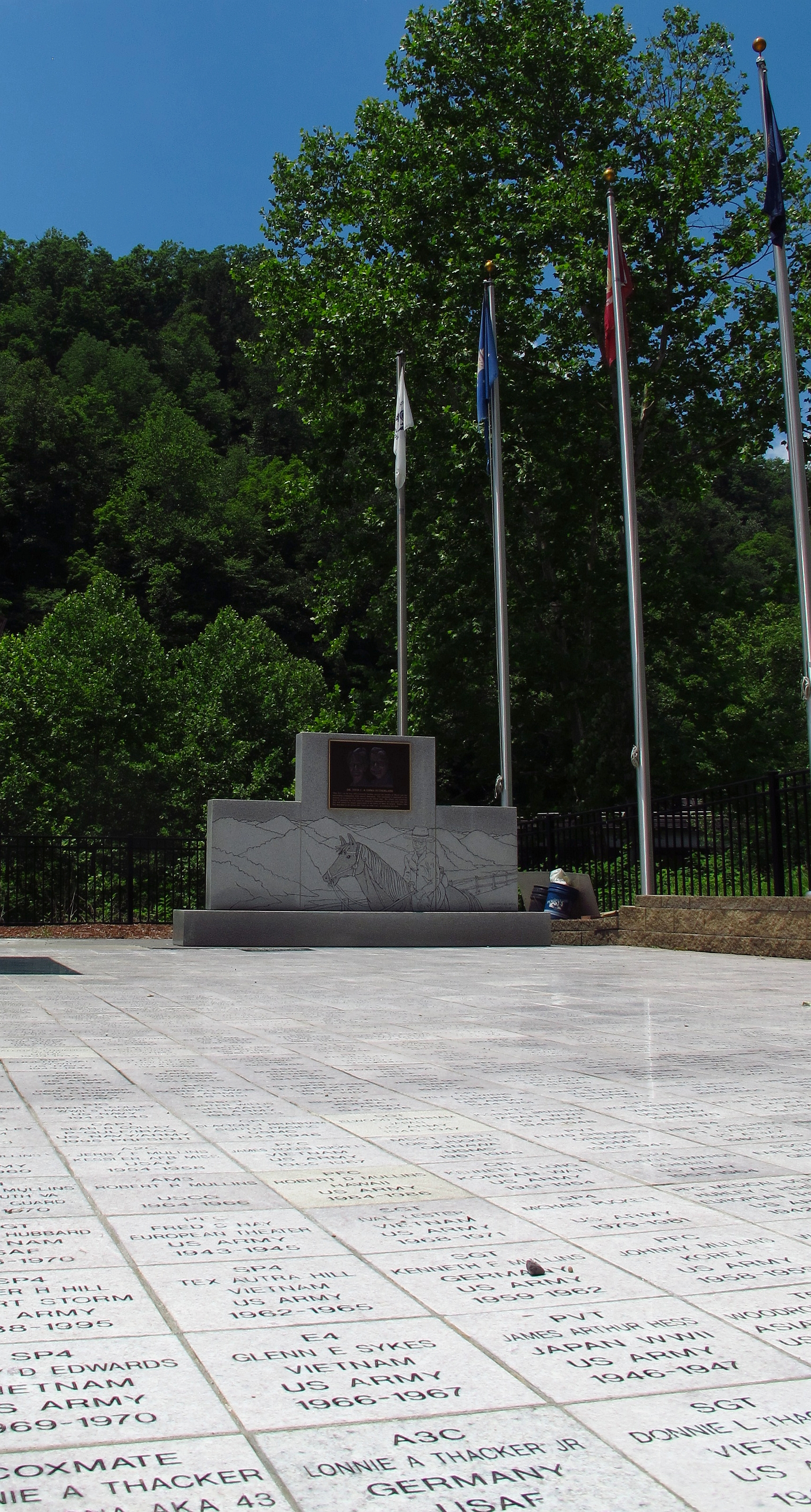 Veteran’s Memorial Walk of Honor, Haysi, Virginia.